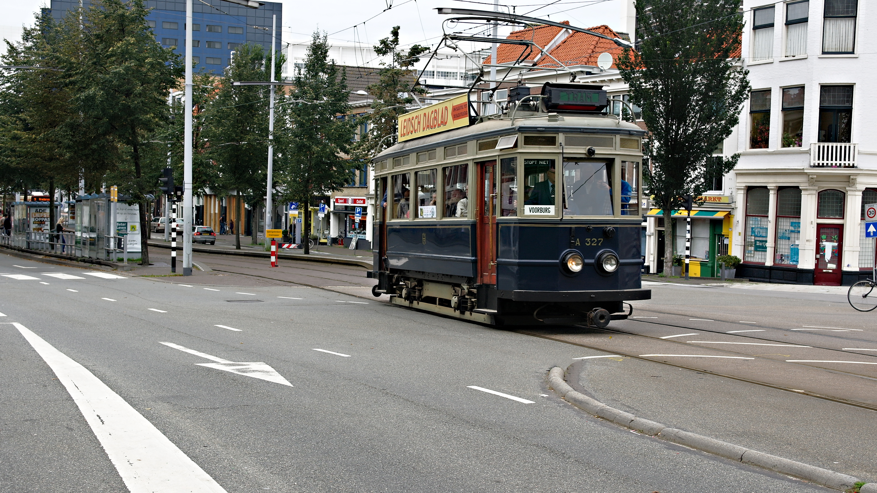 Museumtram A327 of Tramweg-Stichting, The Hauge, The Netherlands